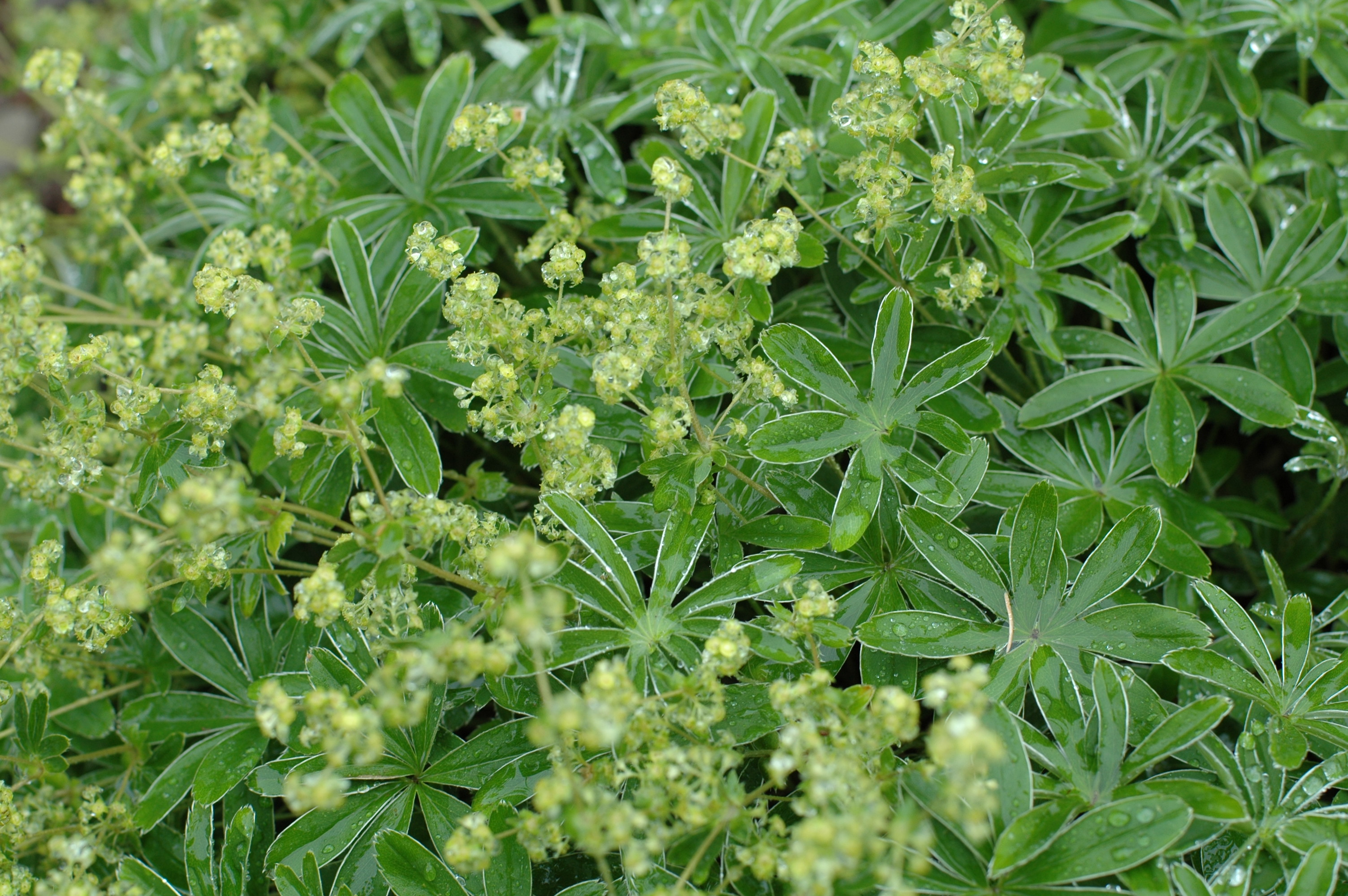 Alchemilla hoppeana at Rennsteiggarten near Oberhof/Thuringia (Germany)